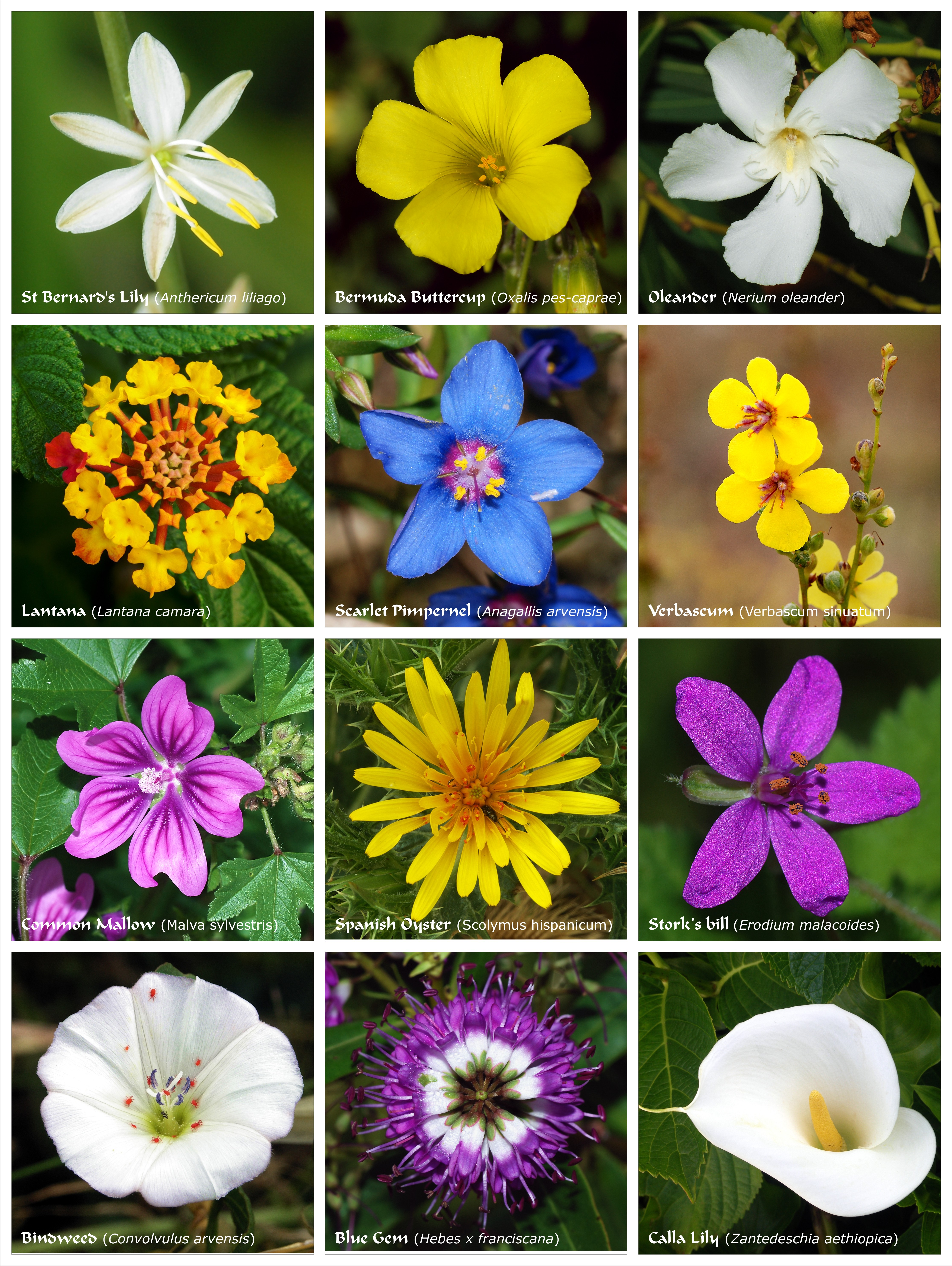 A poster with twelve flowers of different families: St Bernards Lilly (Anthericum liliago): Liliaceae Bermuda Buttercup (Oxalis pes-caprae): Oxalidaceae Oleander (Nerium oleander): Apocynaceae Lantana (Lantana camara): Verbenaceae Scarlet Pimpernel (Anagallis arvensis): Primulaceae Verbascum (Verbascum sinuatum): Scrophulariaceae Common Mallow (Malva sylvestris): Malvaceae Spanish Oyster (Scolymus hispanicus): Asteraceae Stork's Bill (Erodium malacoides): Geraniaceae Bindweed (Convolvulus arvensis): Convolvulaceae Blue Gem (Hebe x franciscana): Plantaginaceae Calla Lily (Zantedeschia aethiopica): Araceae